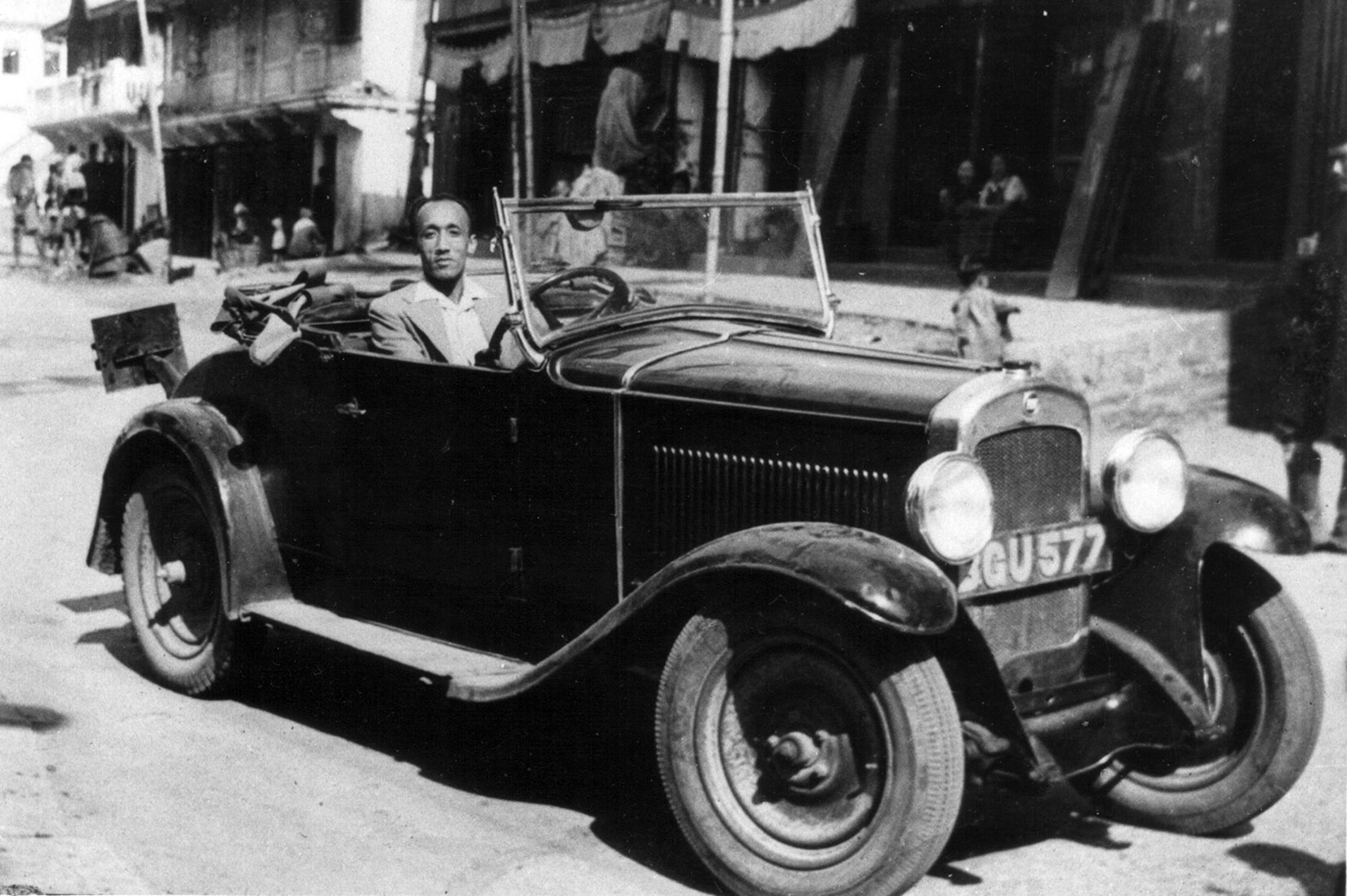 Nepalese merchant Bhakta Bir Singh Tuladhar in a Fiat in Kalimpong, India in 1947.